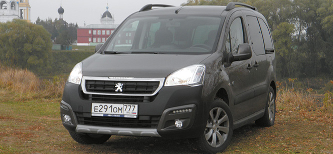 Peugeot Partner